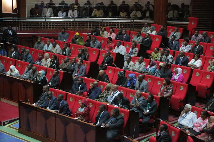 Some members of the Tanzanian Constituent Assembly.